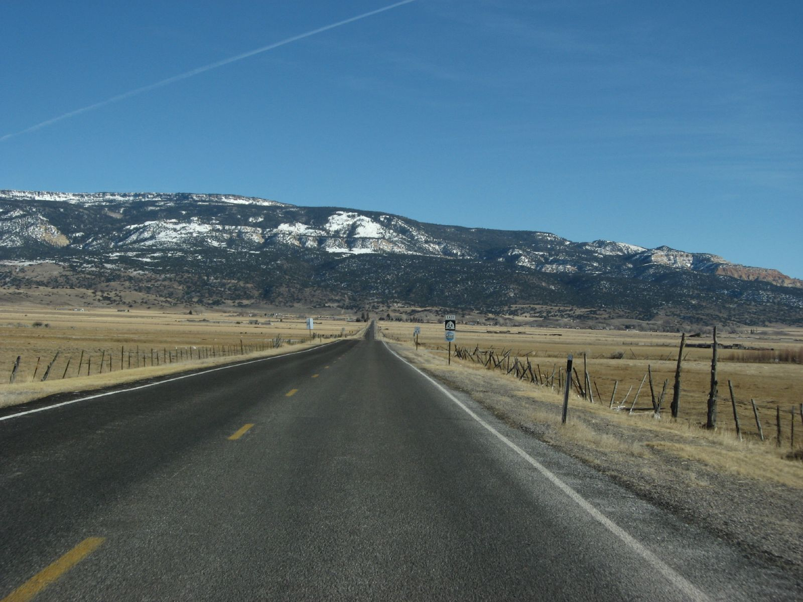 Utah State Route 24